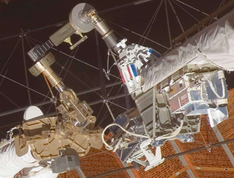 International Space Station photographed from space during repair of the US Solar array by astronaut Scott Parazynski